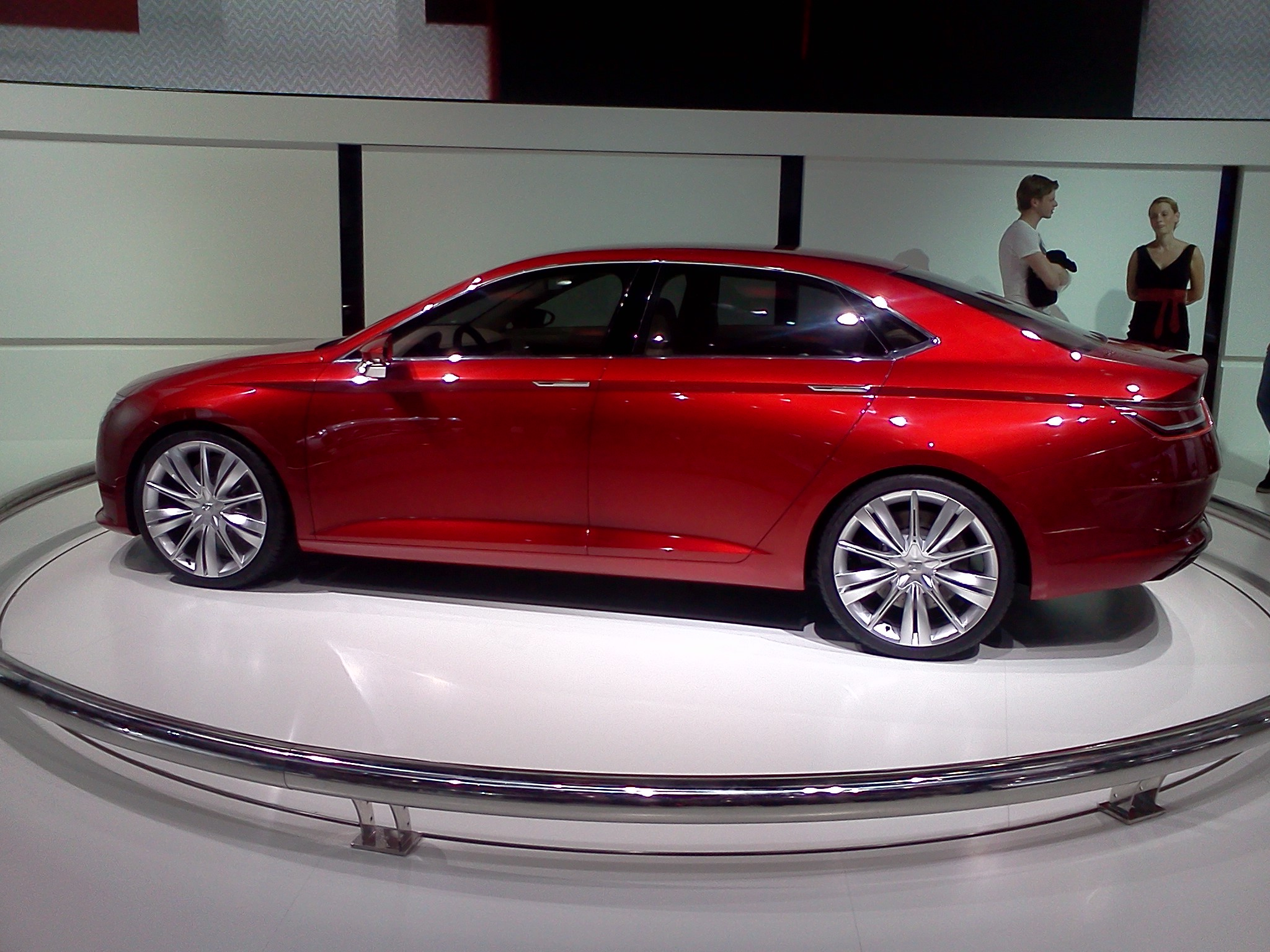 Impressionen IAA 2011